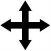 "Cross Barbee" or "Arrow Cross"